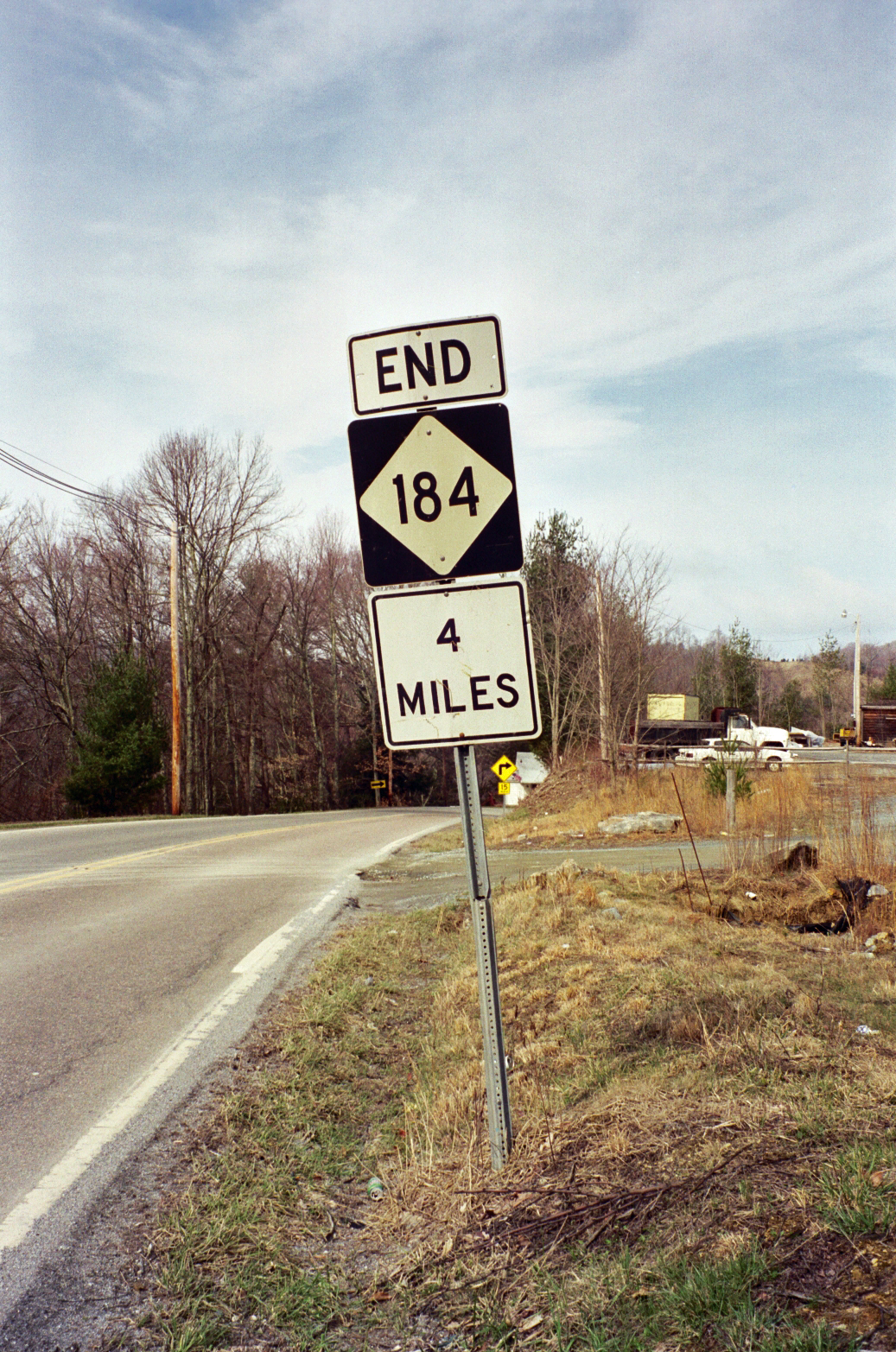 Picture I took back in 2001 showing the unique End Sign for North Carolina Highway 184, going to end in four miles (somewhere up on Beech Mountain). Picture taken in Banner Elk, North Carolina.